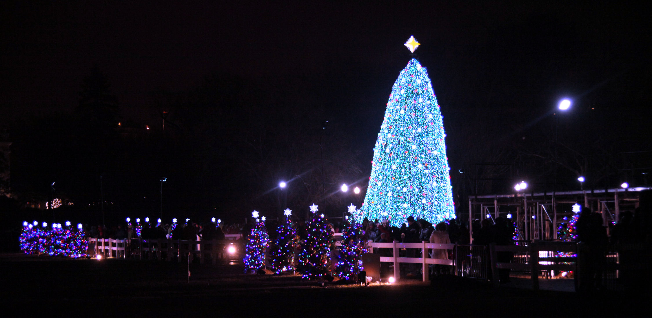 Looking northeast at the U.S. National Christmas Tree on December 19, 2010. The smaller Christmas trees represent that various states and territories.